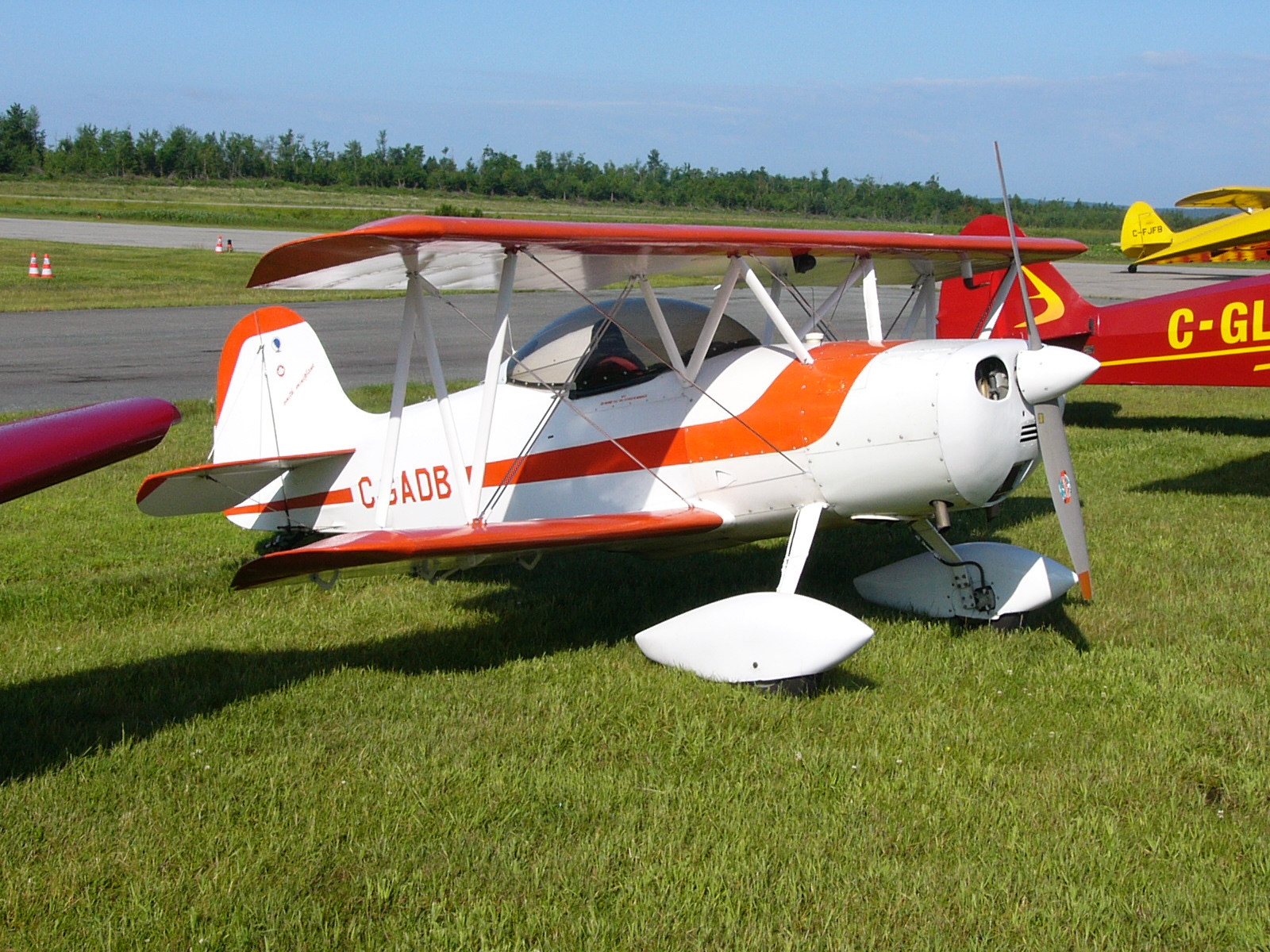 Smith Miniplane at Les Faucheurs de Marguerites, Sherbrooke, Quebec, Canada